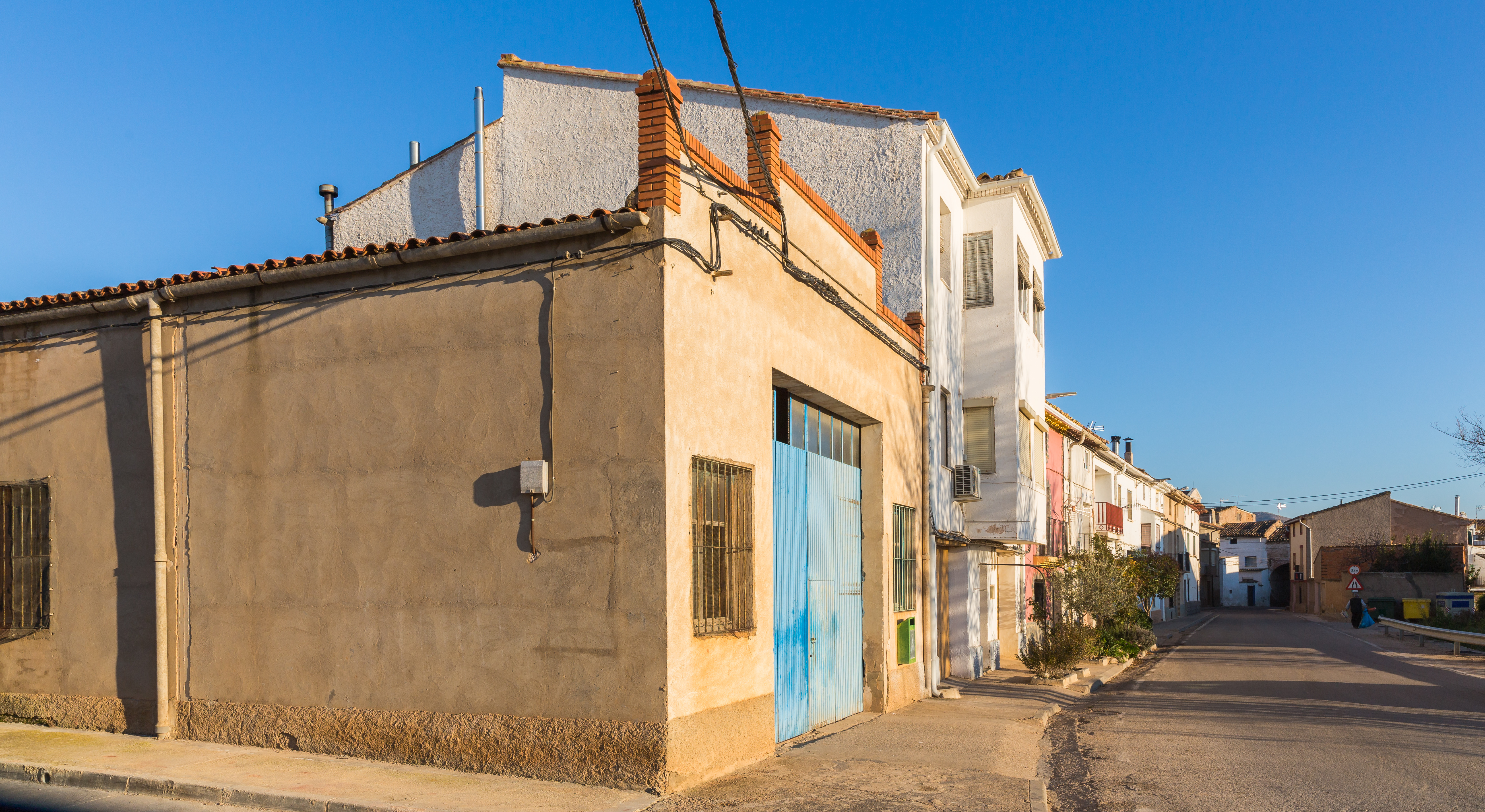 Chodes, Zaragoza, Spain